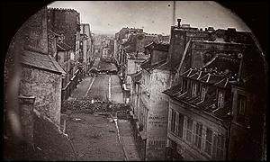 One of the first Daguerreotype, showing barricades during June Days Uprising.